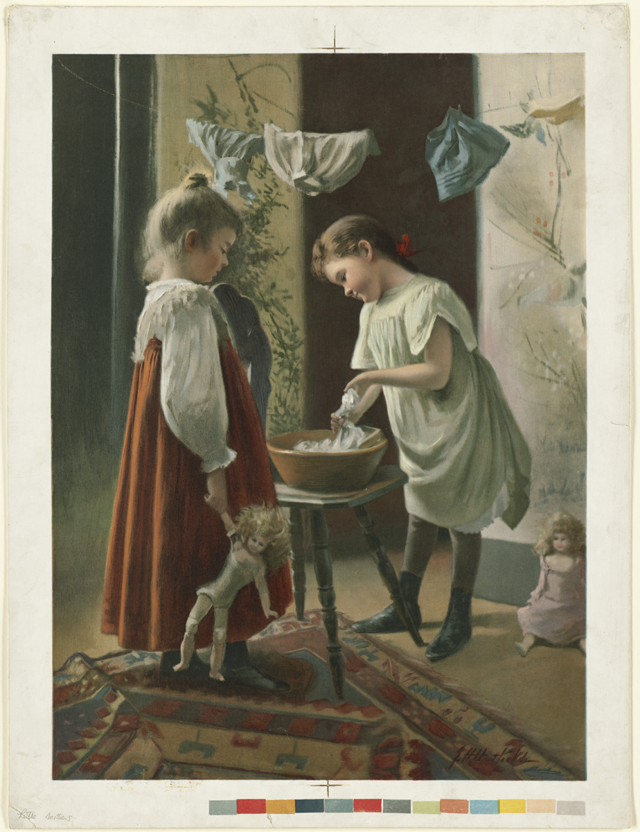 File name: 07_11_001159 Title: Little Mothers Creator/Contributor: L. Prang & Co. (publisher) Date issued: 1861-1897 (approximate) Copyright date: Physical description note: Genre: Chromolithographs; Portrait prints; Group portraits Location: Boston Public Library, Print Department Rights: No known restrictions Flickr data on 2011-08-04: Camera: Sinar AG Sinarback 54 FW, Sinar m License: CC BY 2.0 User: Boston Public Library BPL